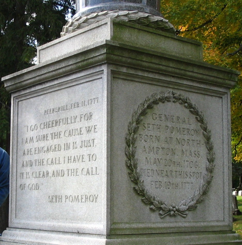 Seth Pomeroy monument base in Hillside Cemetery in Peekskill, New York.